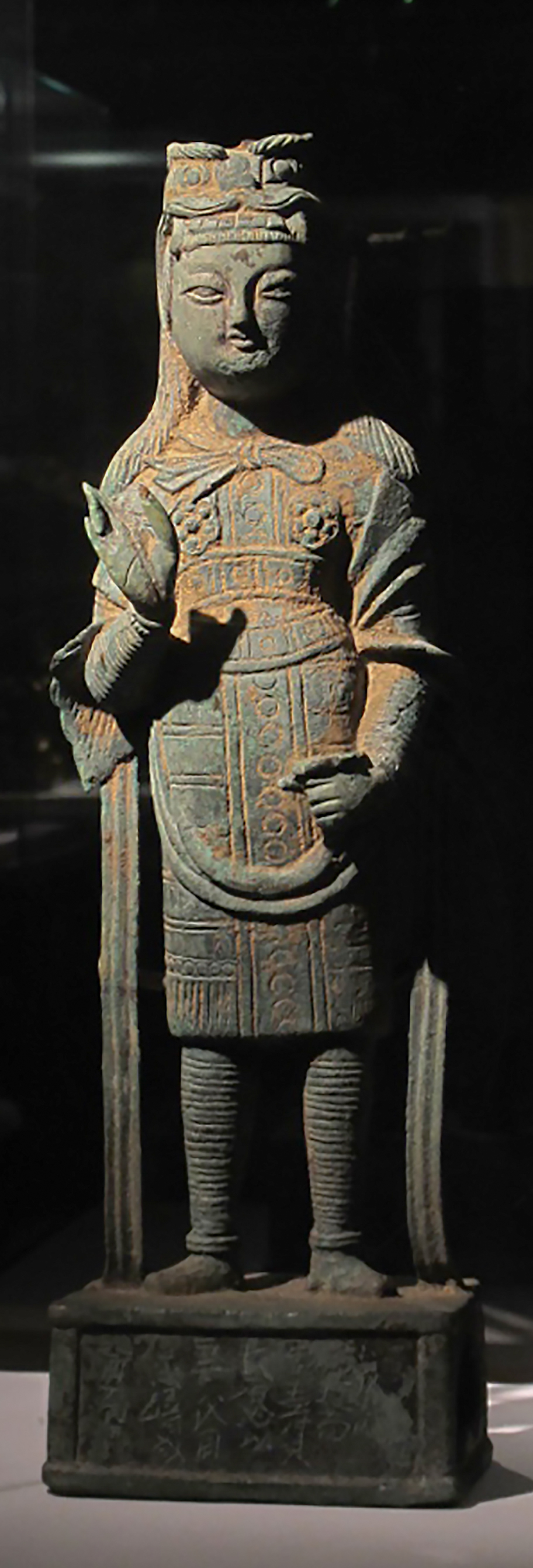 Guardian King. Silla Unification period (668-918), end of the Silla Kingdom, 9th century. Bronze. Guimet Museum. Purchase, 2004, MA 8153. This guardian king belongs to one of the 8 categories of Buddhist beings: the celestial musicians ( gandharva ) - identification by his animal skin cap. Dated after paintings from the Turfan Oasis. : Extract from the cartel of the museum..